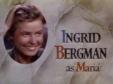 Actrist Ingrid Bergman in For Whom the Bell Tolls - trailer (screenshot)